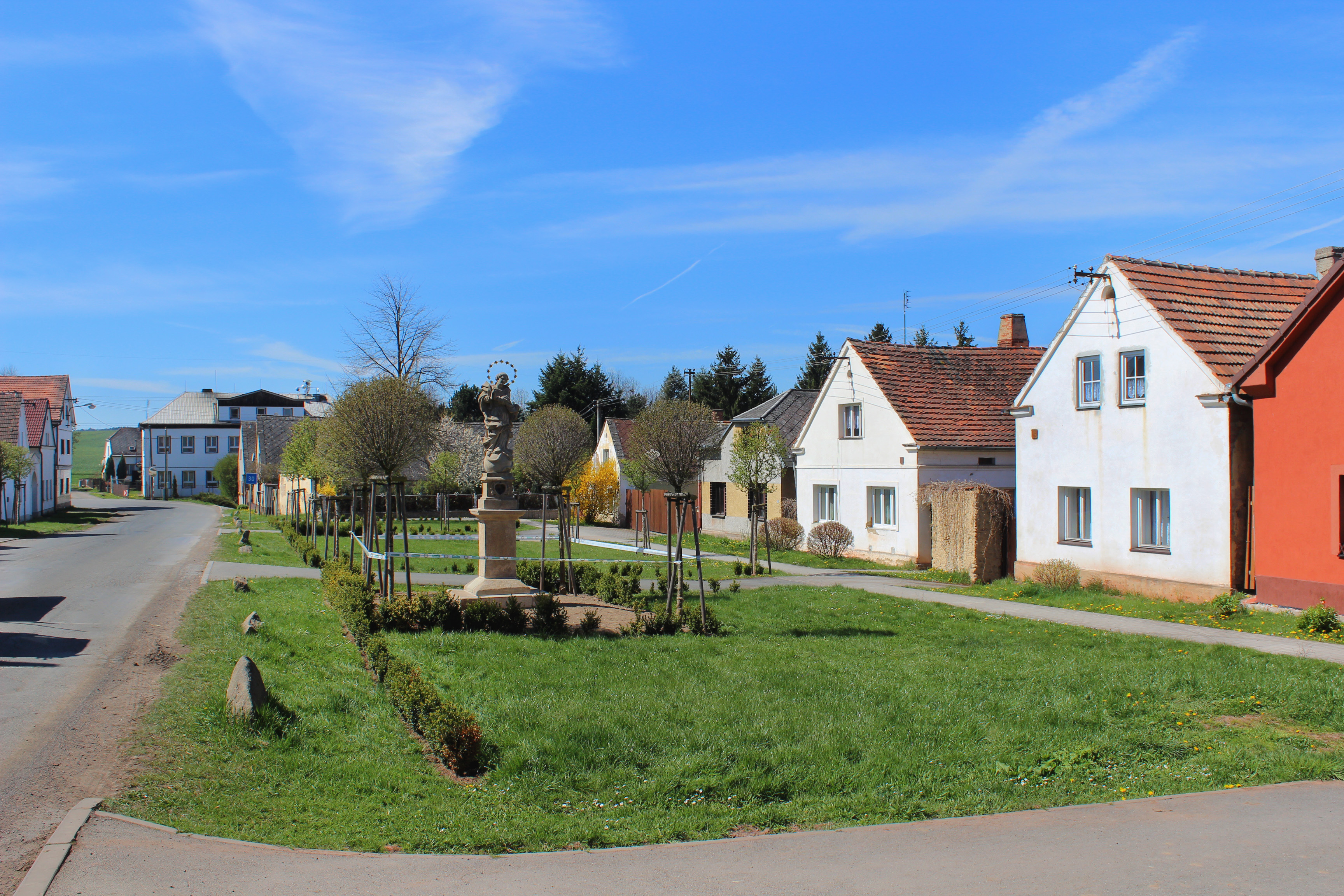 Upper common in Cebiv village, Czech Republic